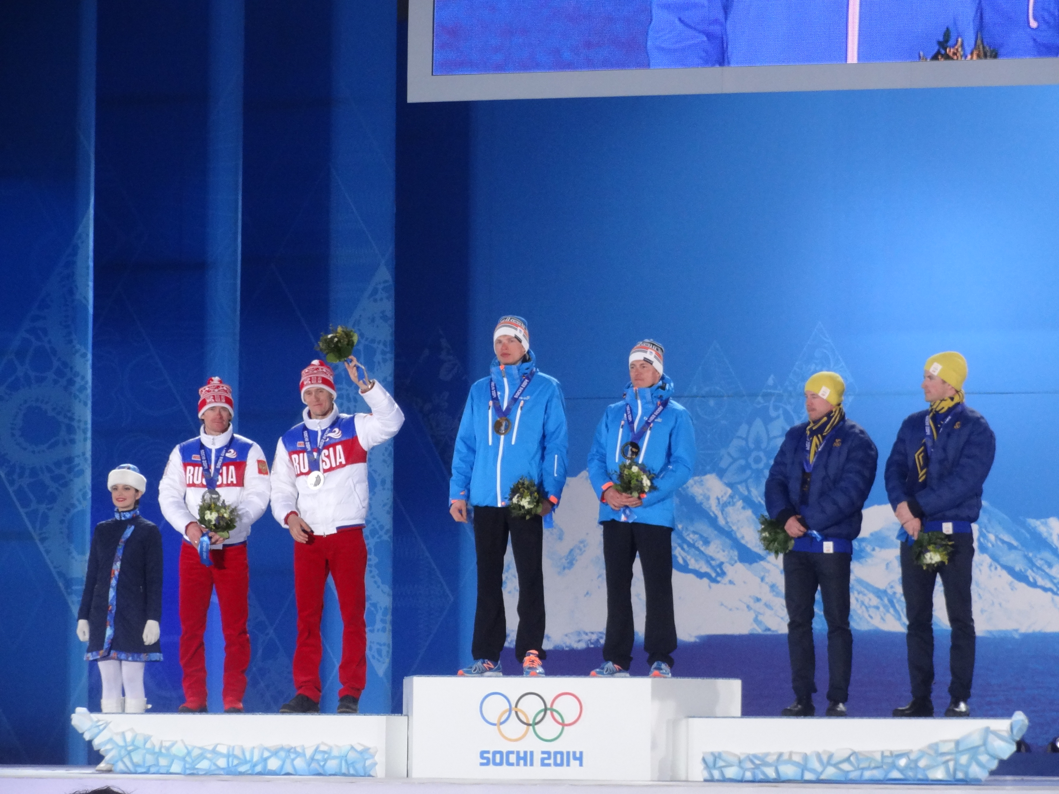 Men's Team Sprint Classic - Cross-Country - Sochi 2014 Gold: Iivo Niskanen / Sami Jauhojärvi, Finland. Silver: Maxim Vylegzhanin / Nikita Kriukov, Russian Federation. Bronze: Emil Jönsson / Teodor Peterson, Sweden.